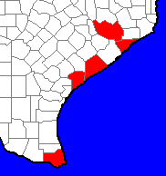 Map of counties in Texas affected by Racer's Storm, which was the tenth tropical cyclone of the 1837 Atlantic hurricane season